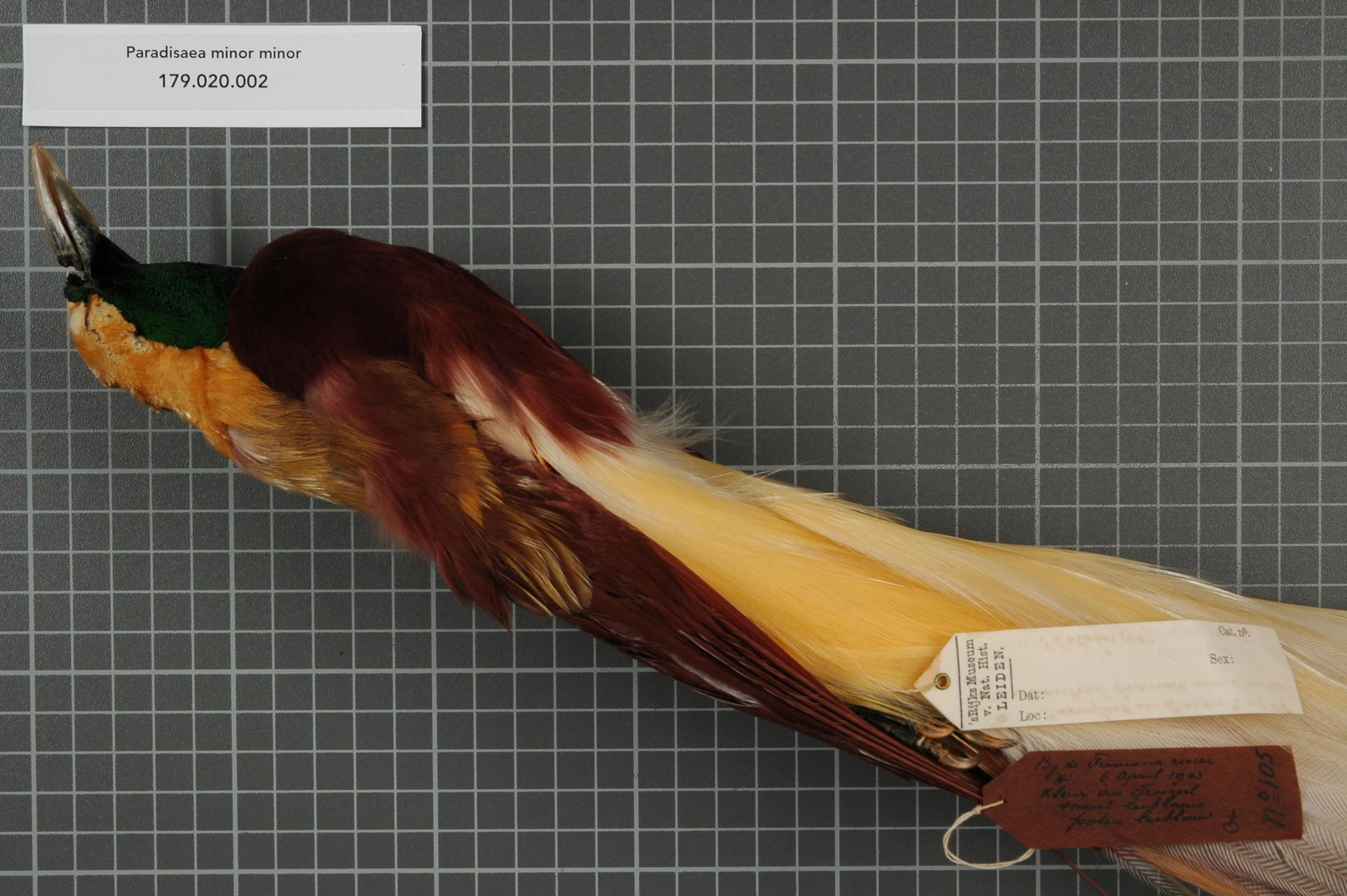 Paradisaea minor minor Shaw, 1809